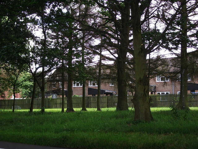 Gamecock Barracks